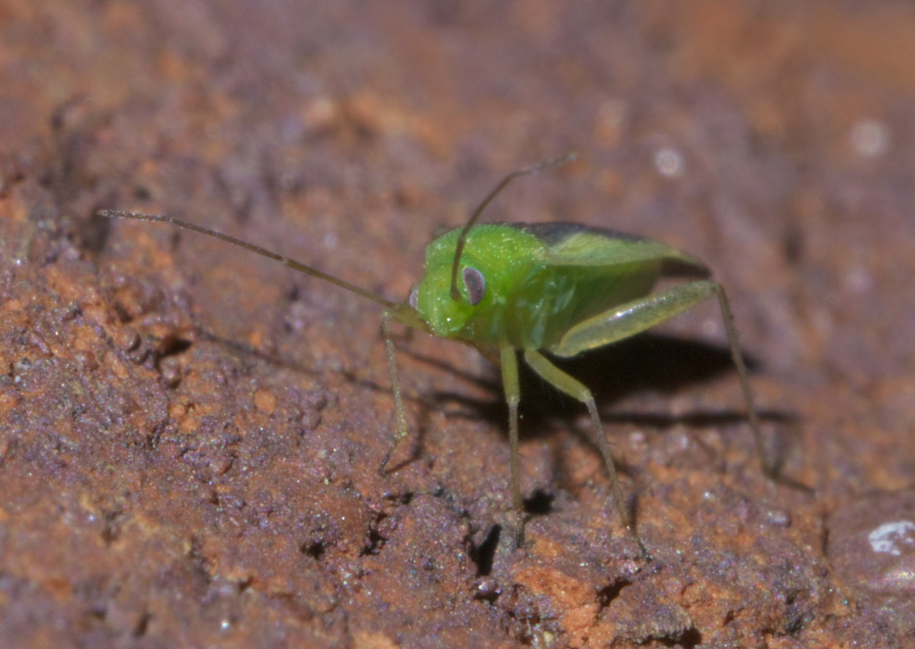 Reuteroscopus ornatus, Ornate Plant Bug, ID Confidence: 98